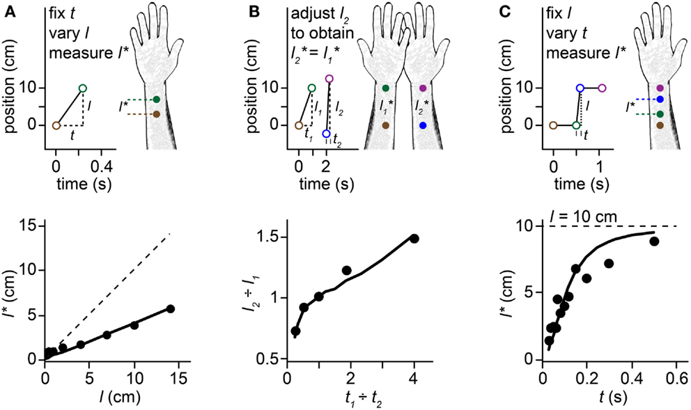 Perception underestimates the distance between successive taps to the skin. Stimuli are illustrated in the upper panels, along with their perception (forearm sketches). Corresponding human data (points) and Bayesian model fits (curves) are plotted in the lower panels. Panels (A) and (B) illustrate length contraction associated with two-tap stimuli. Panel (C) shows a four-tap version of the cutaneous rabbit illusion. For a full description, see Figure 1 of Goldreich D, Tong J (2013) Prediction, postdiction, and perceptual length contraction: a Bayesian low-speed prior captures the cutaneous rabbit and related illusions. Front Psychol 4:221